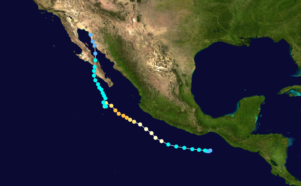 Track map of Hurricane Hilary of the 1993 Pacific hurricane season. The points show the location of the storm at 6-hour intervals. The colour represents the storm's maximum sustained wind speeds as classified in the Saffir-Simpson Hurricane Scale (see below), and the shape of the data points represent the nature of the storm, according to the legend below. Saffir–Simpson scale Tropical depression≤38 mph≤62 km/h Category 3111–129 mph178–208 km/h Tropical storm39–73 mph63–118 km/h Category 4130–156 mph209–251 km/h Category 174–95 mph119–153 km/h Category 5≥157 mph≥252 km/h Category 296–110 mph154–177 km/h Unknown Storm typeTropical cycloneSubtropical cycloneExtratropical cyclone / Remnant low / Tropical disturbance